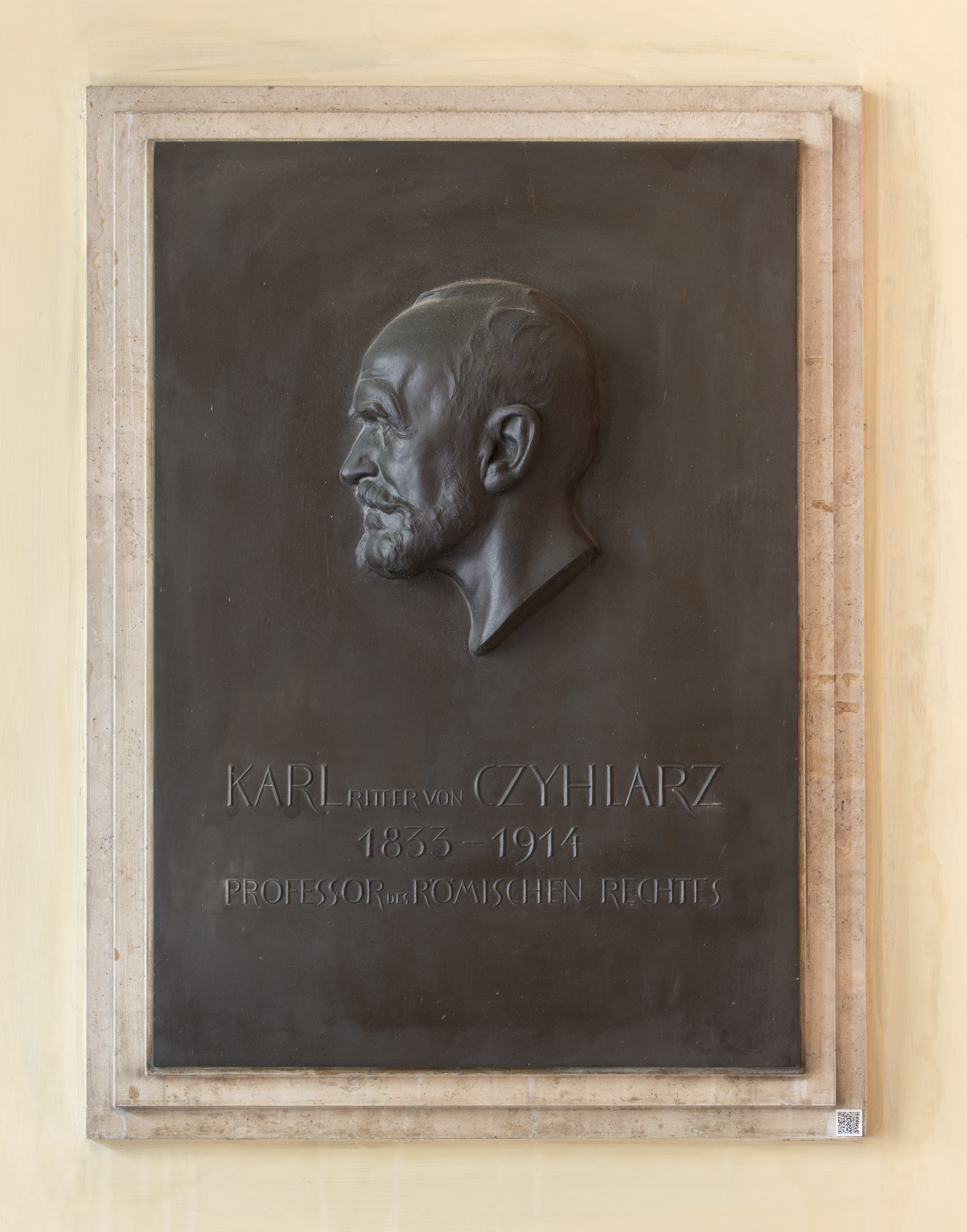 Karl von Czyhlarz, portrait relief (bronze) in the Arkadenhof of the University of Vienna, (Maisel# 1). Artist: Alfred Hofmann (1879-1958), unveiled 1927